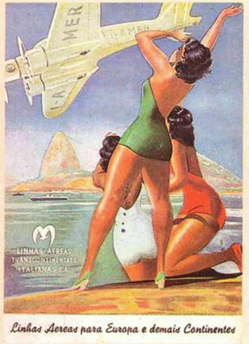 Linee Aeree Transcontinentali Italiane advertising poster from Brazil (ca. 1940-45). The scene is Rio de Janeiro, the aircraft is a Savoia-Marchetti S.M.82.